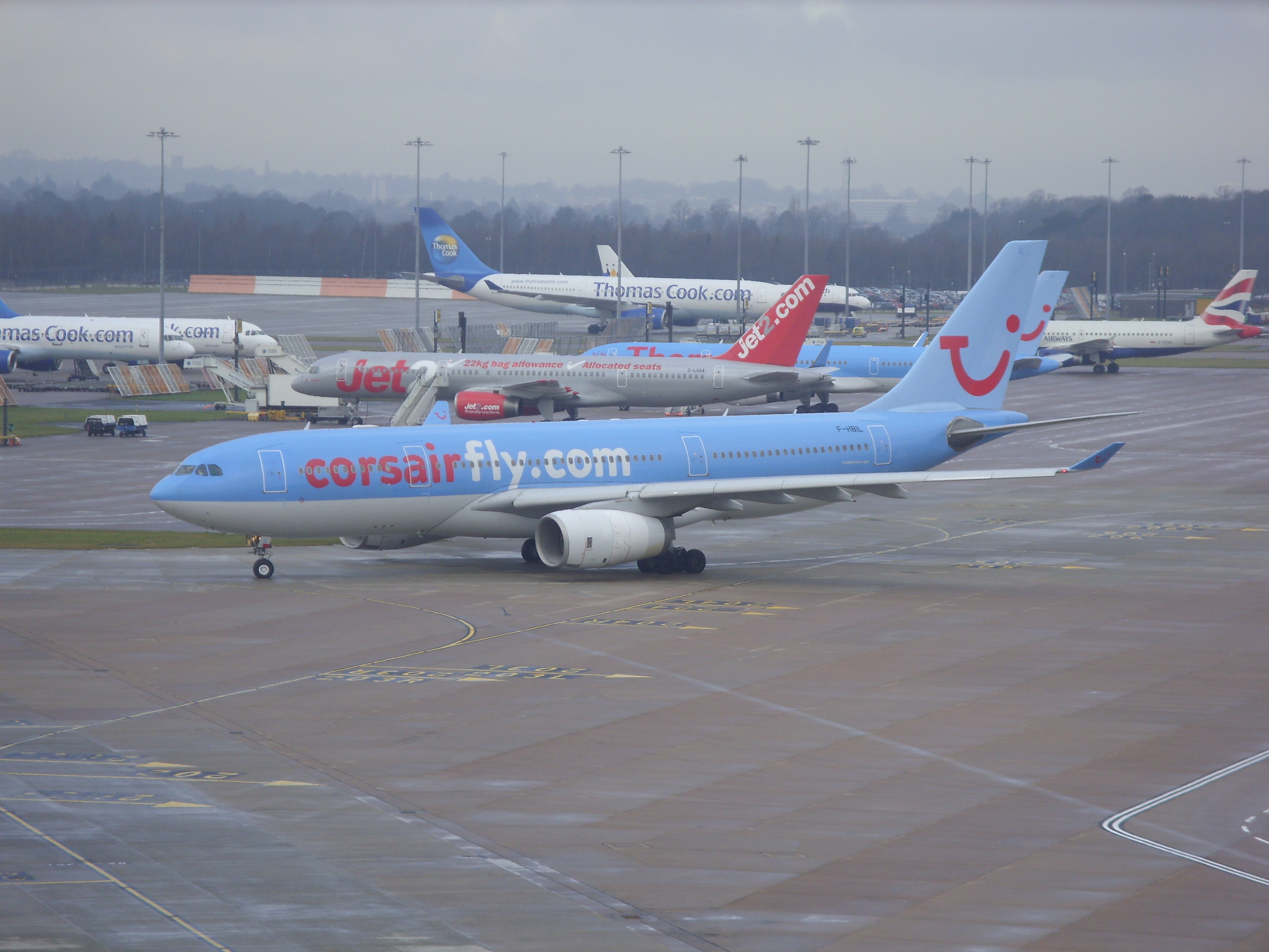 Corsairfly Airbus A330-200 at Manchester international UK (EGCC) on 18/01/11. It was operating for Thomsonfly.